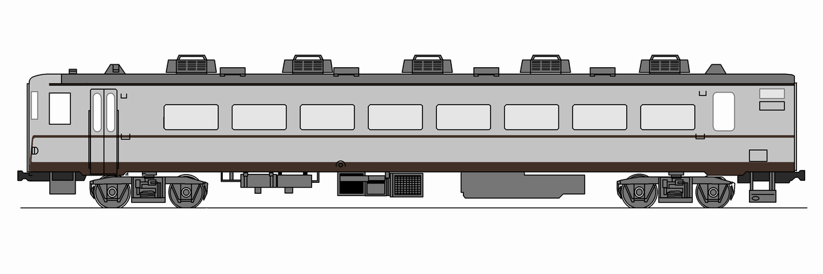 The side view of the Passenger Car(Brake_van) series 14 "Miyabi" of JNR.